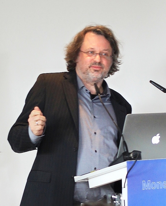 ML6 Anthropology of Money